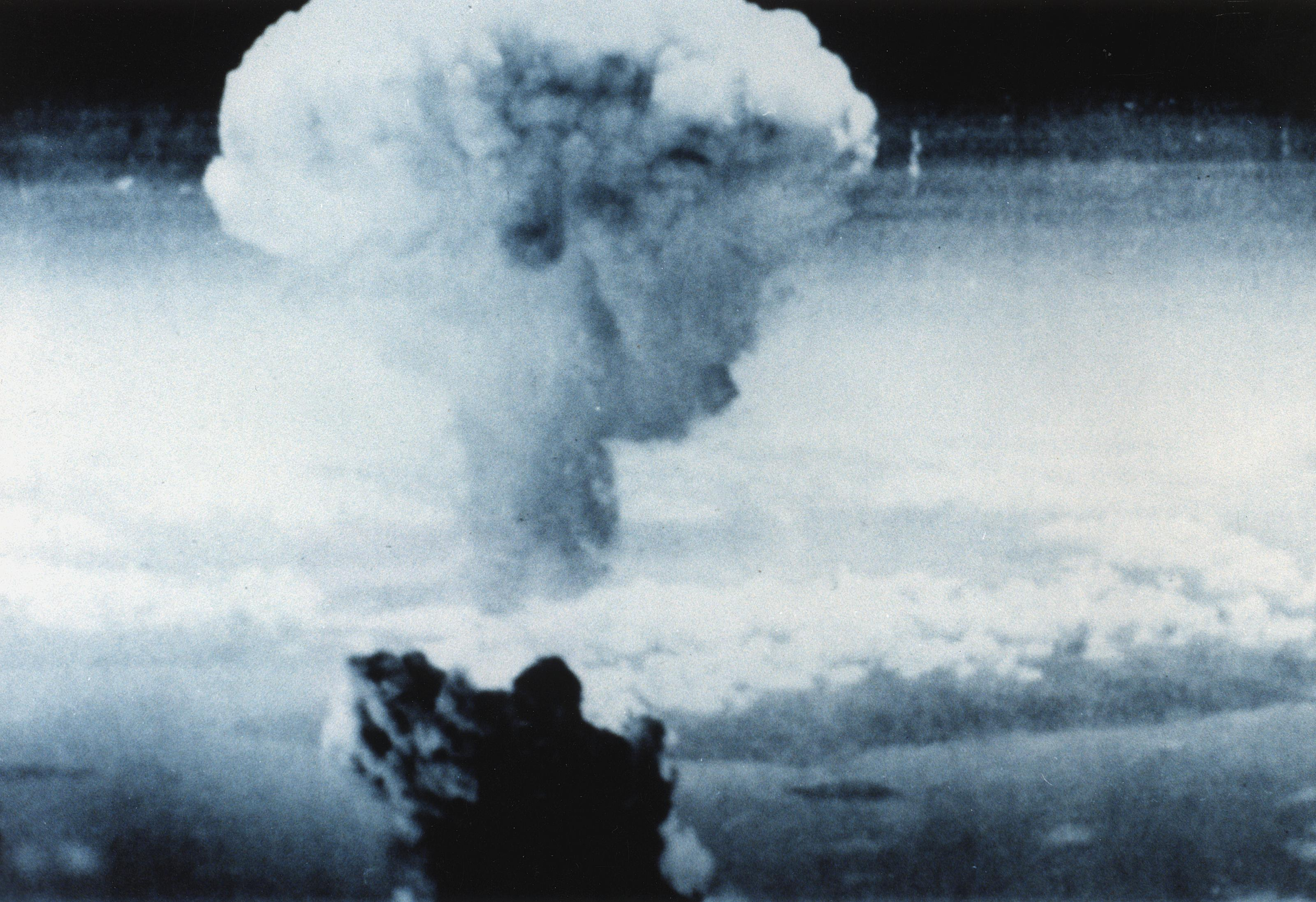 Mushroom cloud over Nagasaki.